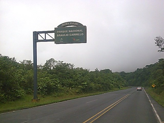 Highway 32 from San José - Limón, passing Braulio Carrillo National Park, Costa Rica.